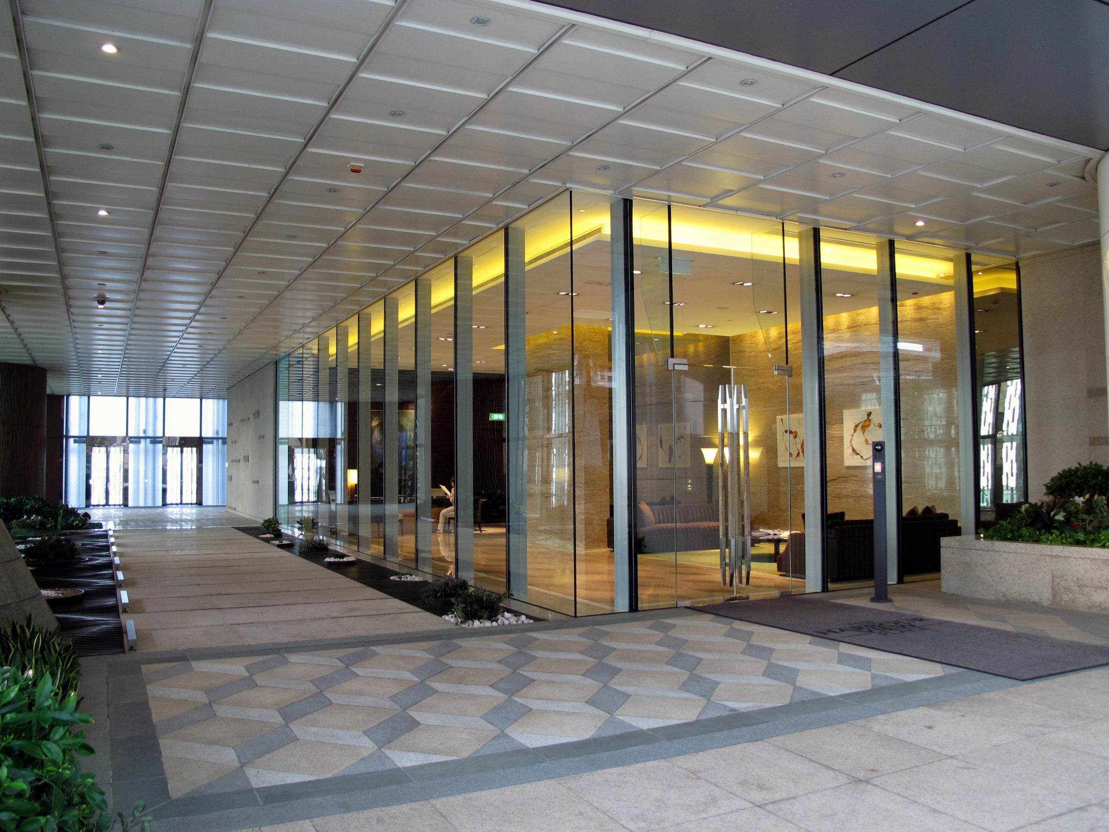 The Harbour Place Podium Lobby, The Cullinan